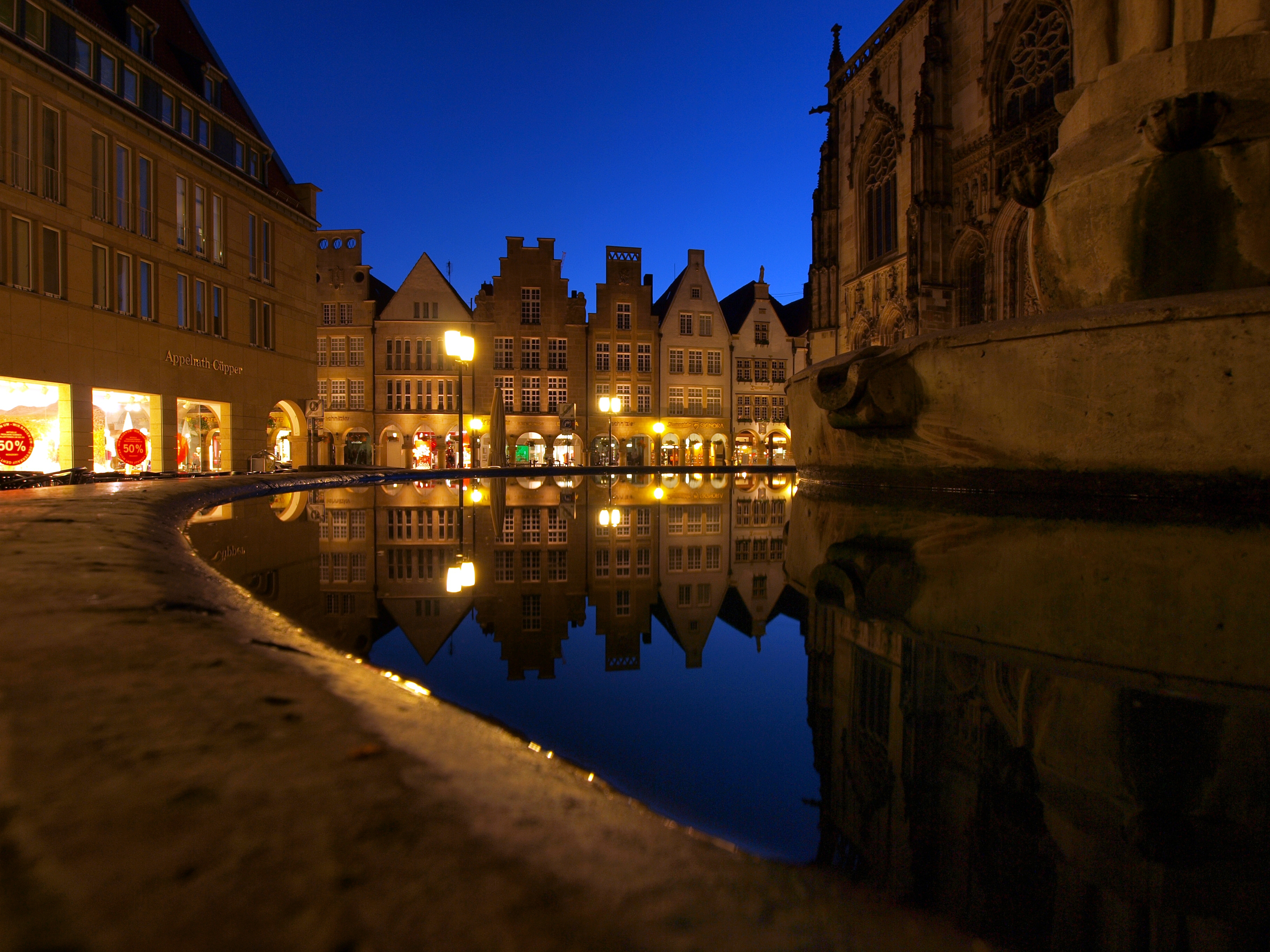 Münster, Germany: View of Prinzipalmarkt, seen from the fountain of St. Lamberti